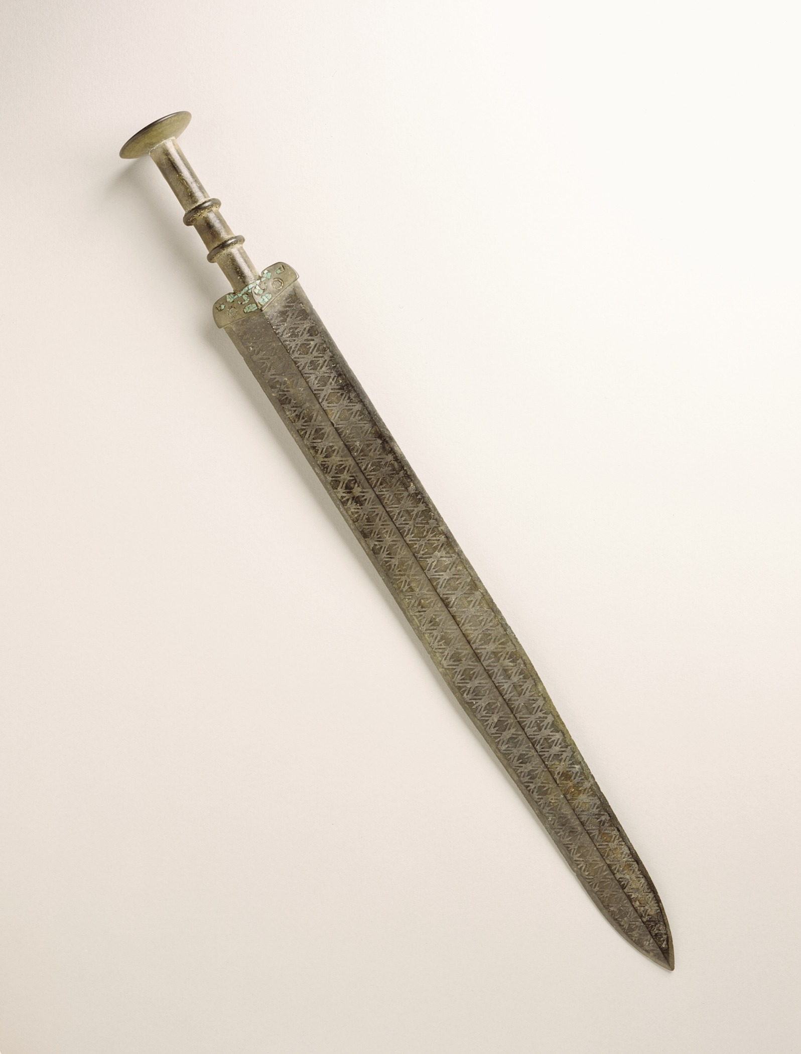 China, Late Eastern Zhou dynasty, Warring States period, 481-221 B.C. Arms and Armor; swords Cast bronze with turquoise inlay 18 1/4 x 1 7/8 in. (46.35 x 4.76 cm) Gift of Mr. and Mrs. Eric Lidow (AC1998.251.20) Chinese Art